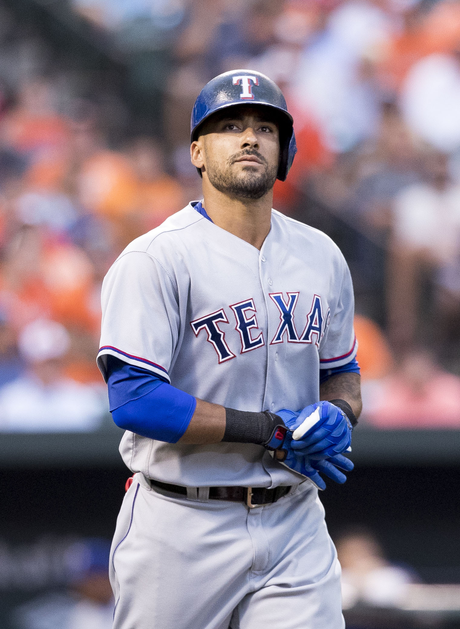 Rangers at Orioles 8/2/16